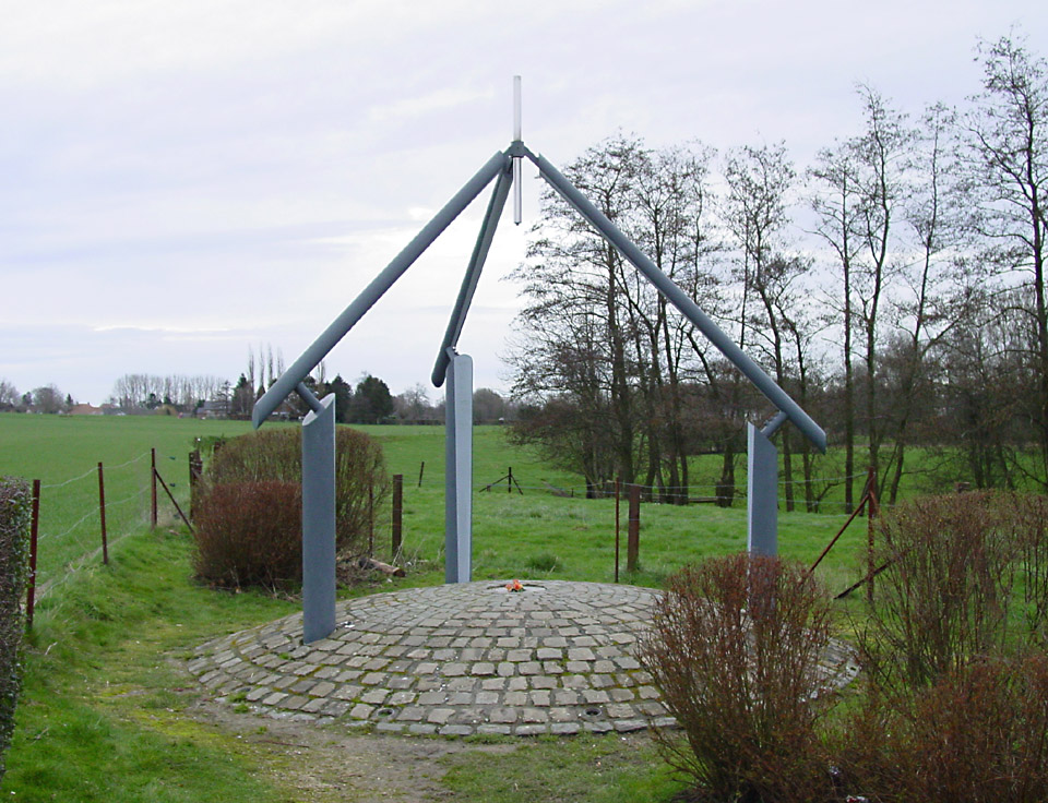 The monument at the geographical centre of Belgium (Bernard Defrenne, August 1998). Photograph taken by myself on 4th March 2007.